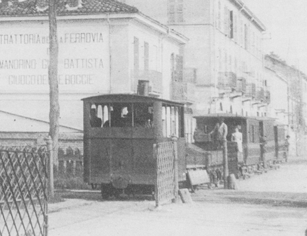 Biella-Vercelli tramway level crossing